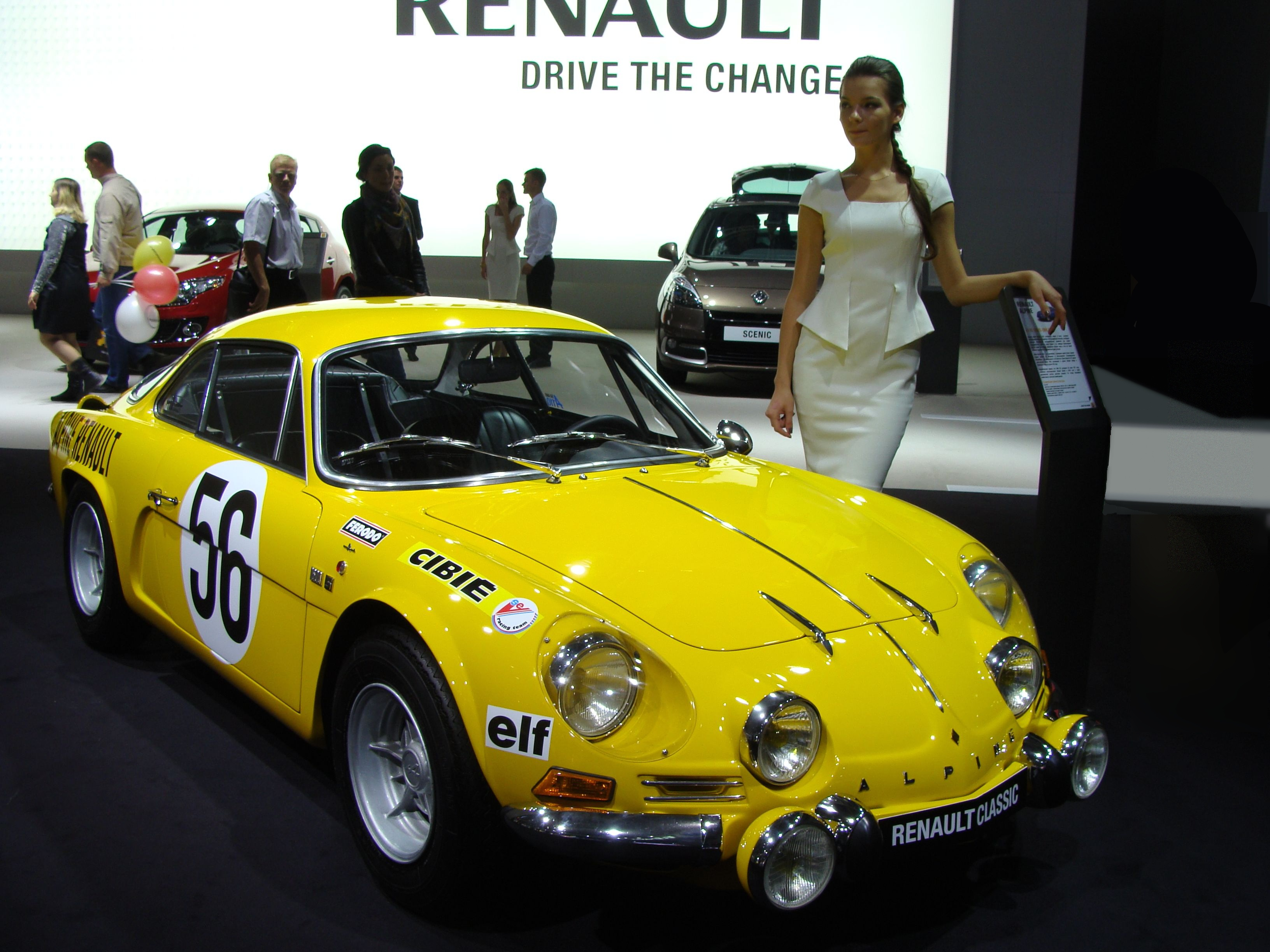 Alpine Renault A110 1600VB (20 June 1971, restored in 2010) on Moscow International Automobile Salon 2012.